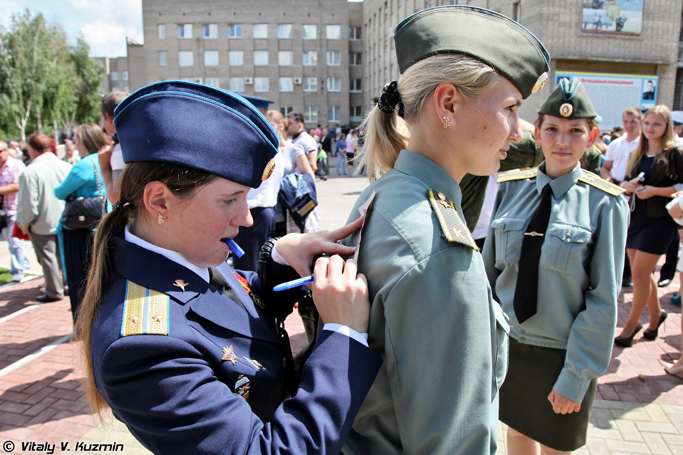 There is a tradition, that every cadet could congratulate lieutenant with graduation, and lieutenant should give him money and write there his best wishes for the cadet.